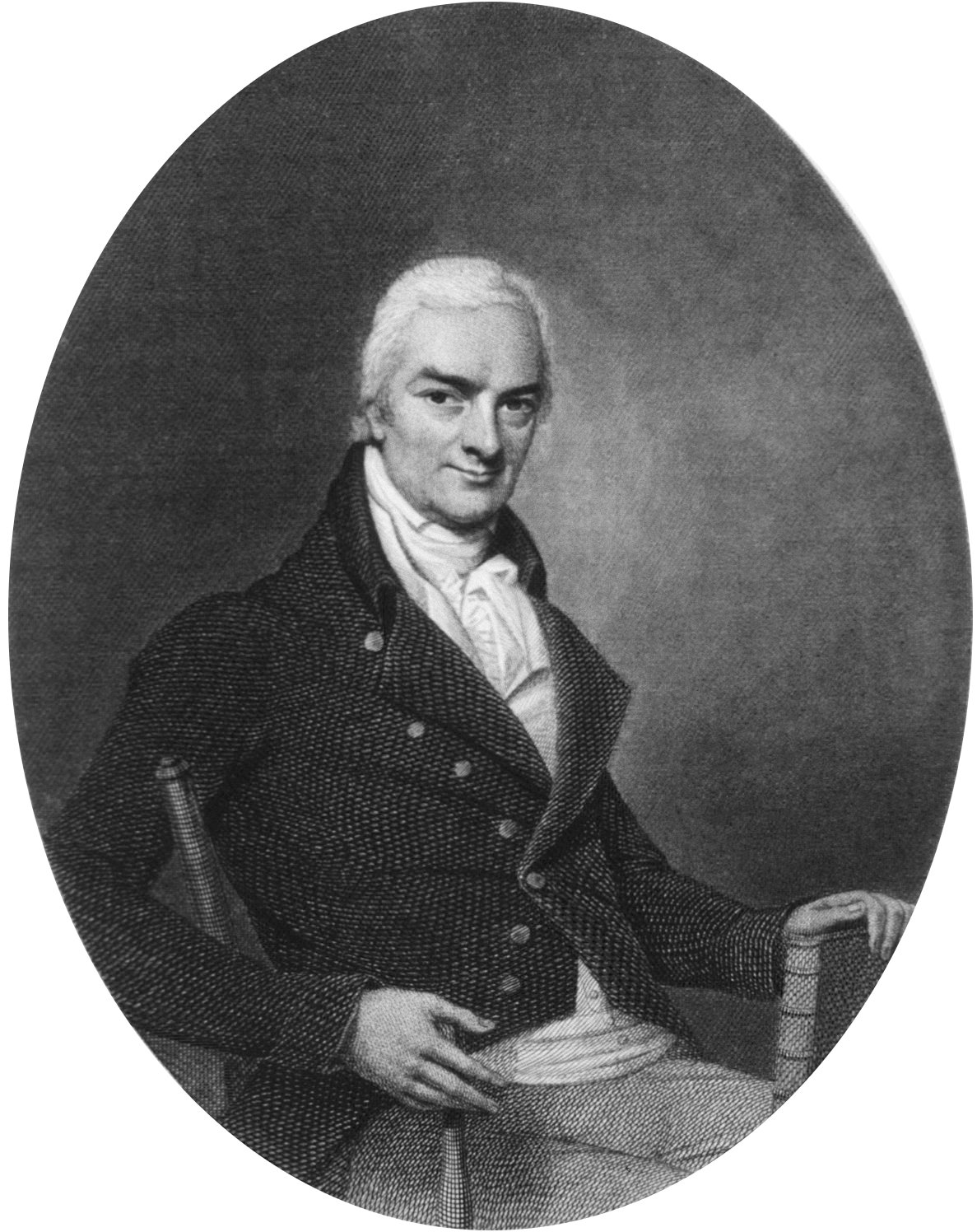 John Haighton (c.1755-23 March 1823)